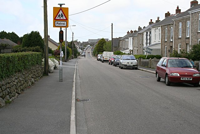 New Road, Troon. Troon is a large village just south of Camborne. With the development of several mines around the village in the 19th century, Troon grew rapidly from a tiny hamlet into a village almost large enough to call a town.